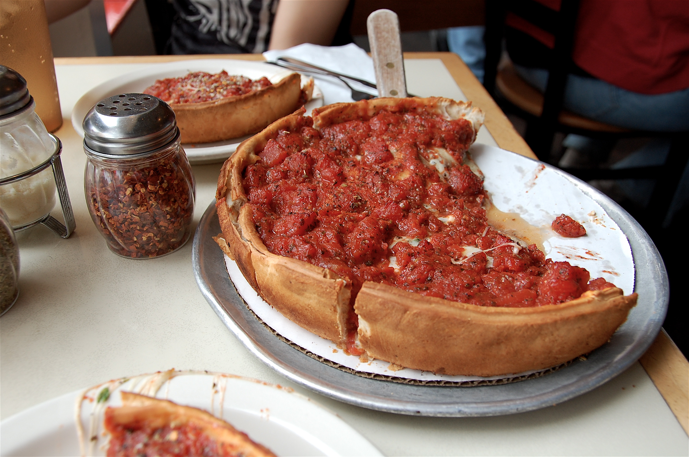 A Chicago-style deep-dish pizza as served by Zachary's Pizza at 5801 College Avenue in Oakland, California, USA